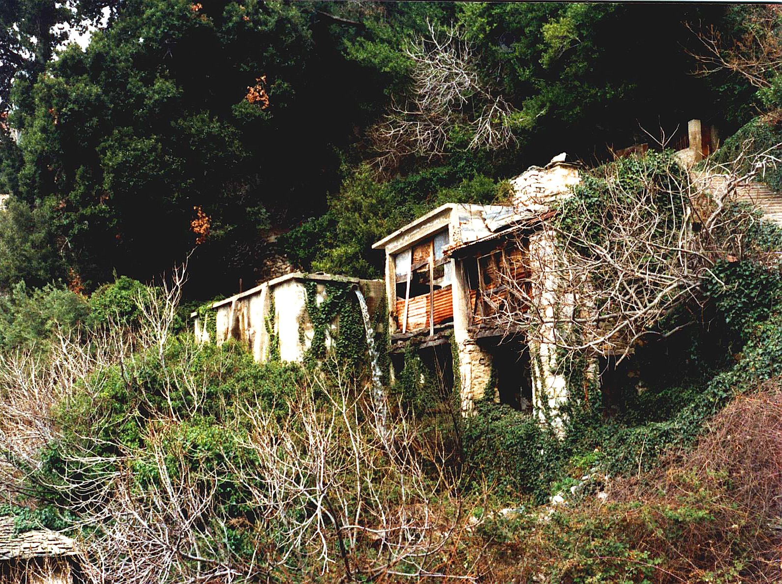 An abandon skete in Holy Mount, Athos Greece